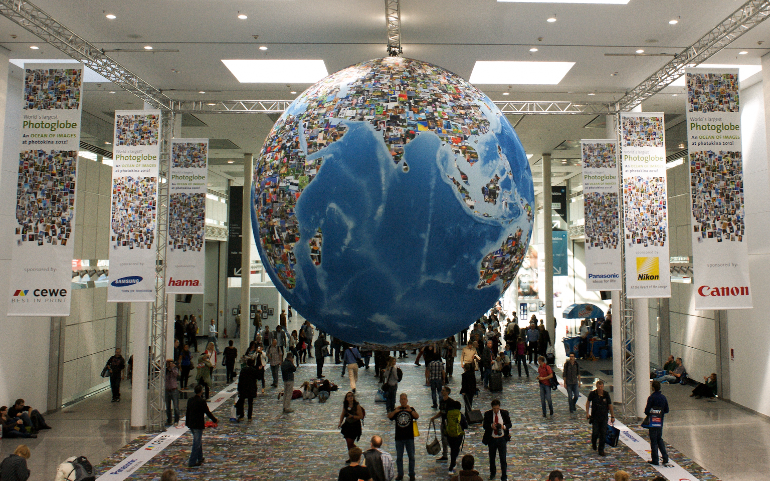 Photokina 2012, Cologne